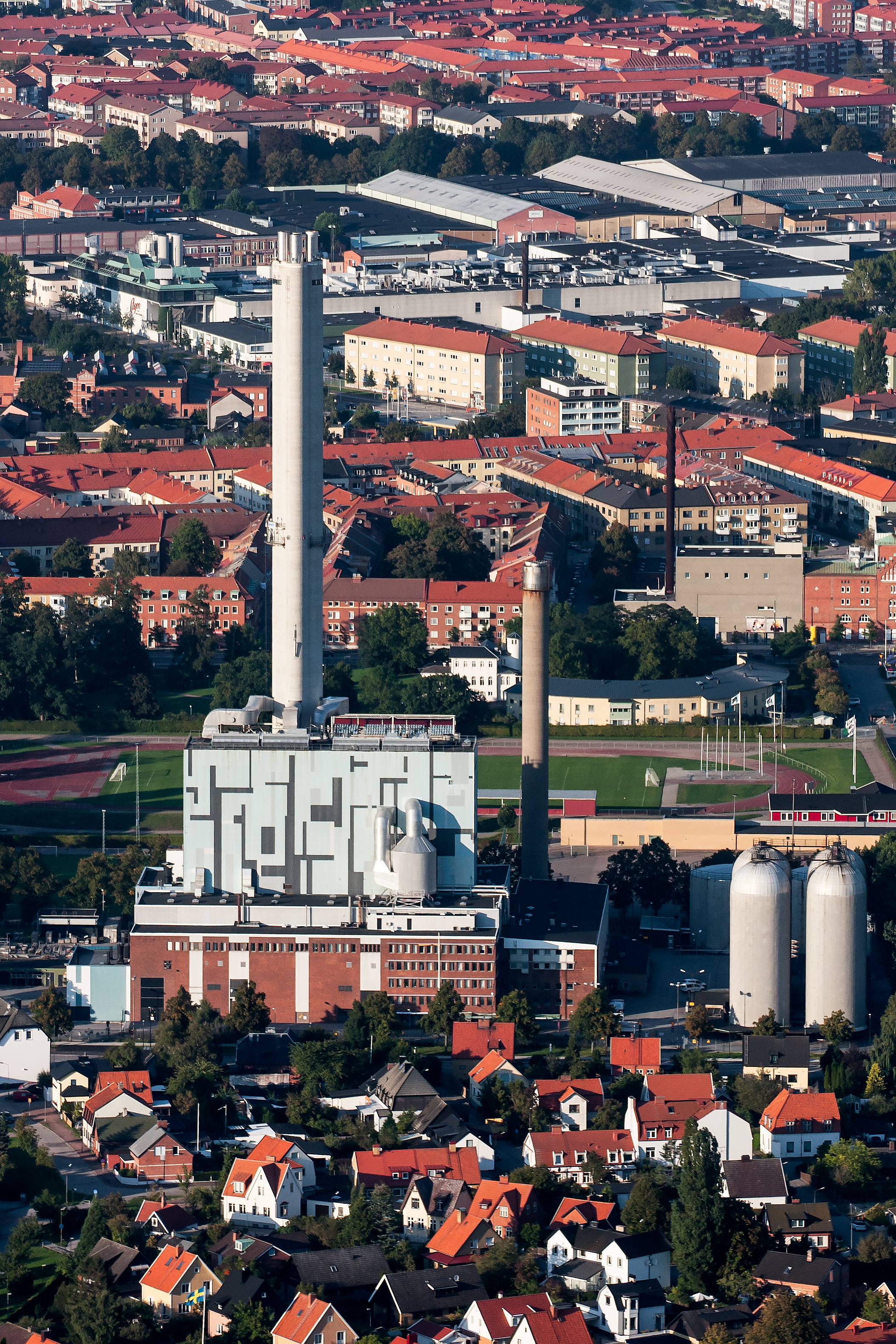 Heleneholm power plant in Fosie, Malmö, Sweden.